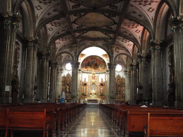 View of the main nave of the temple, viewing the main altar.